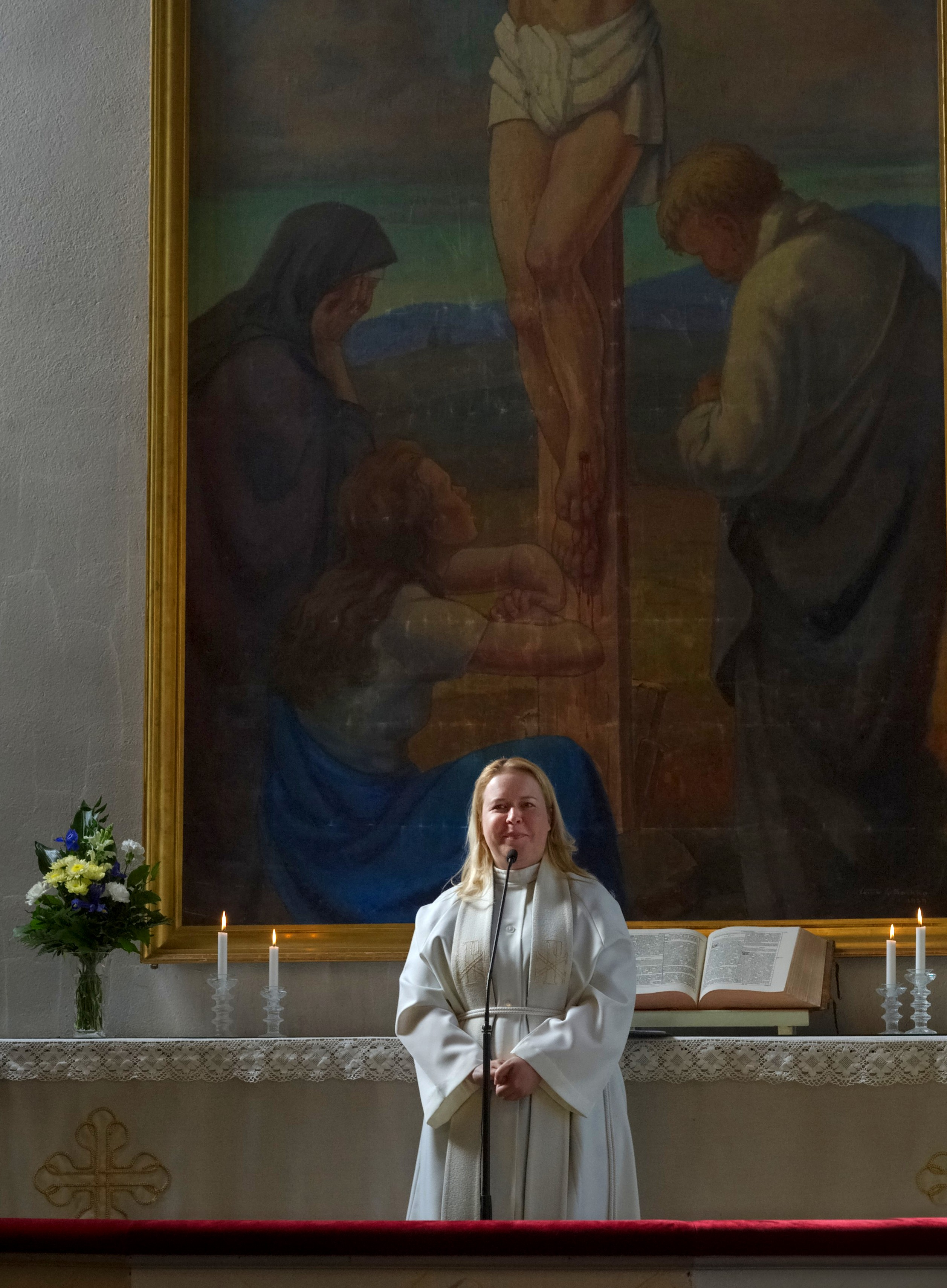 Ylämaa Church (inside). On the background, a painting by Väinö Saikko (1939).